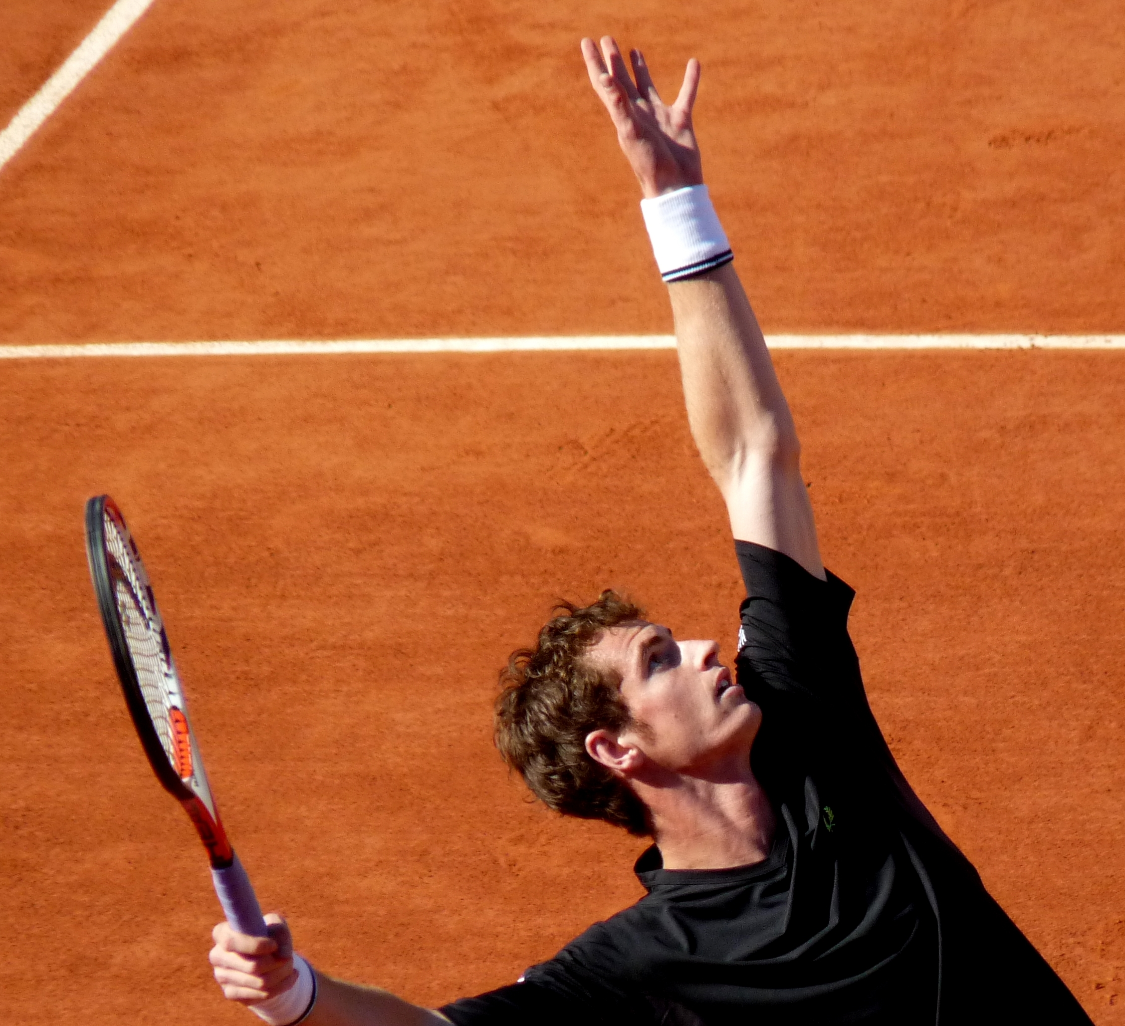 Andy Murray against Janko Tipsarević in the 2009 French Open third round